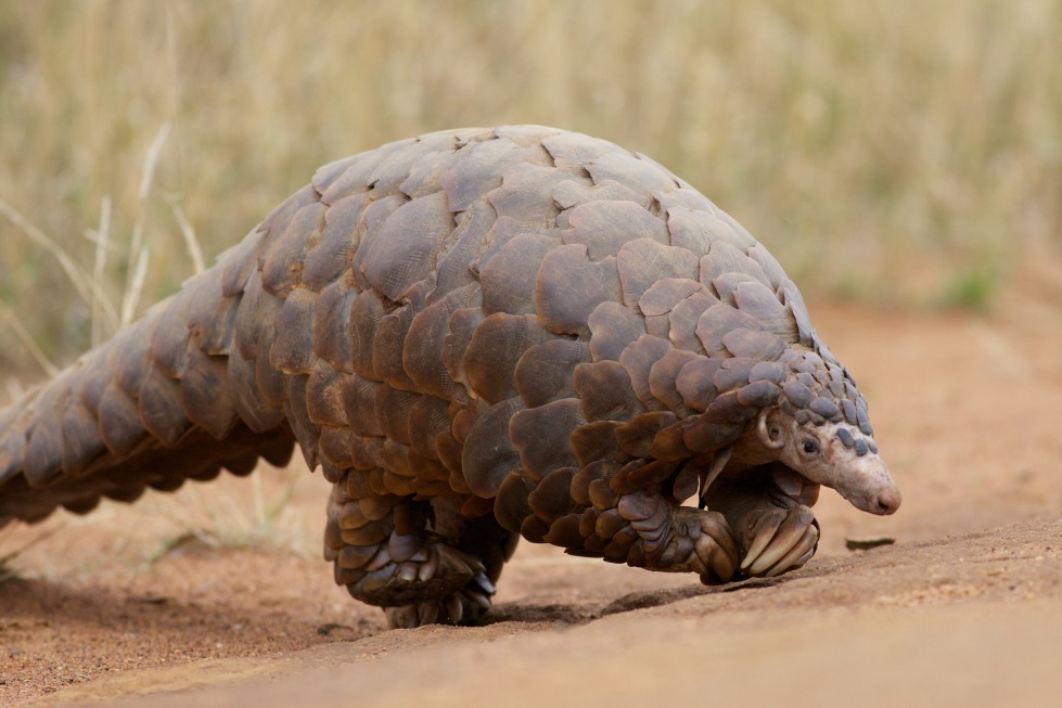 Photo from the Flickr stream of David Brossard shared under Creative Commons licensing: The United States is co-sponsoring four separate proposals to increase CITES protections for pangolins from Appendix II to Appendix I